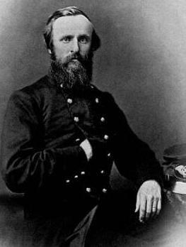 General Rutherford B. Hayes; Library of Congress, Prints and Photographs Division, Civil War Photographs Collection